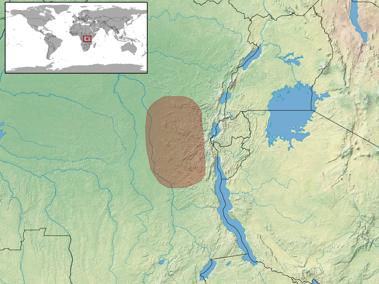 geographic distribution of Leptosiaphos rhodurus